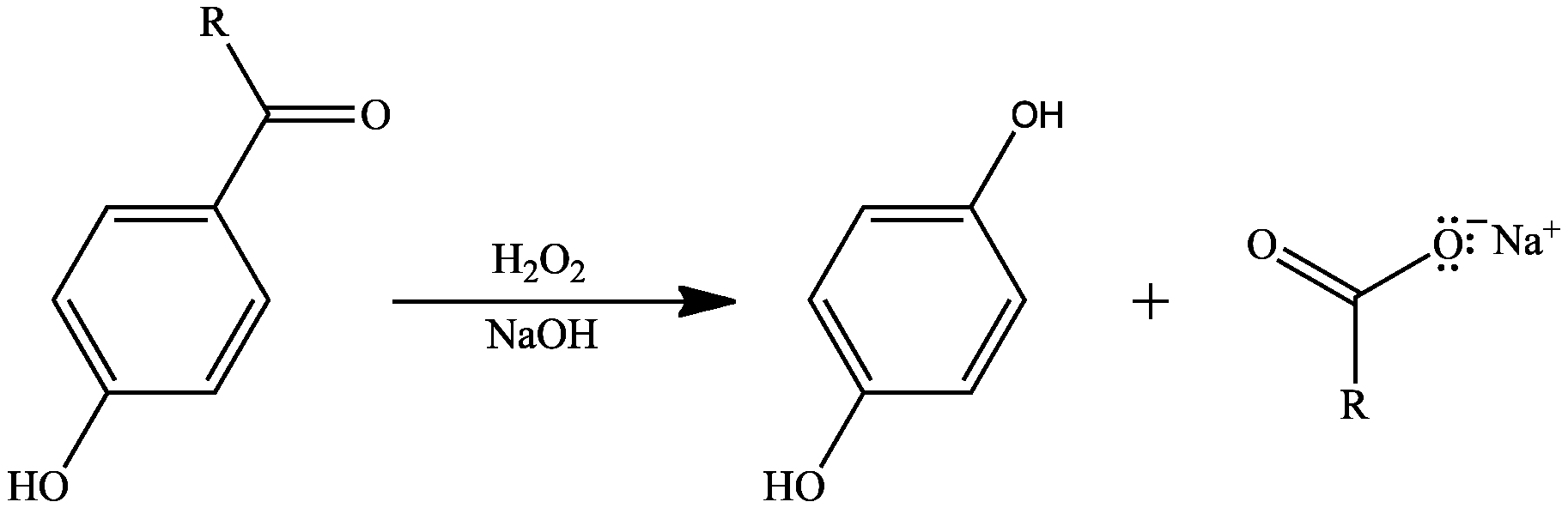 Reactants, products, and reaction conditions for the base-catalyzed Dakin oxidation.